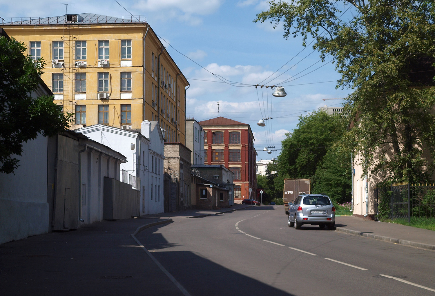 Moscow, Suvorovskaya Street, Preobrazhenskoye District.